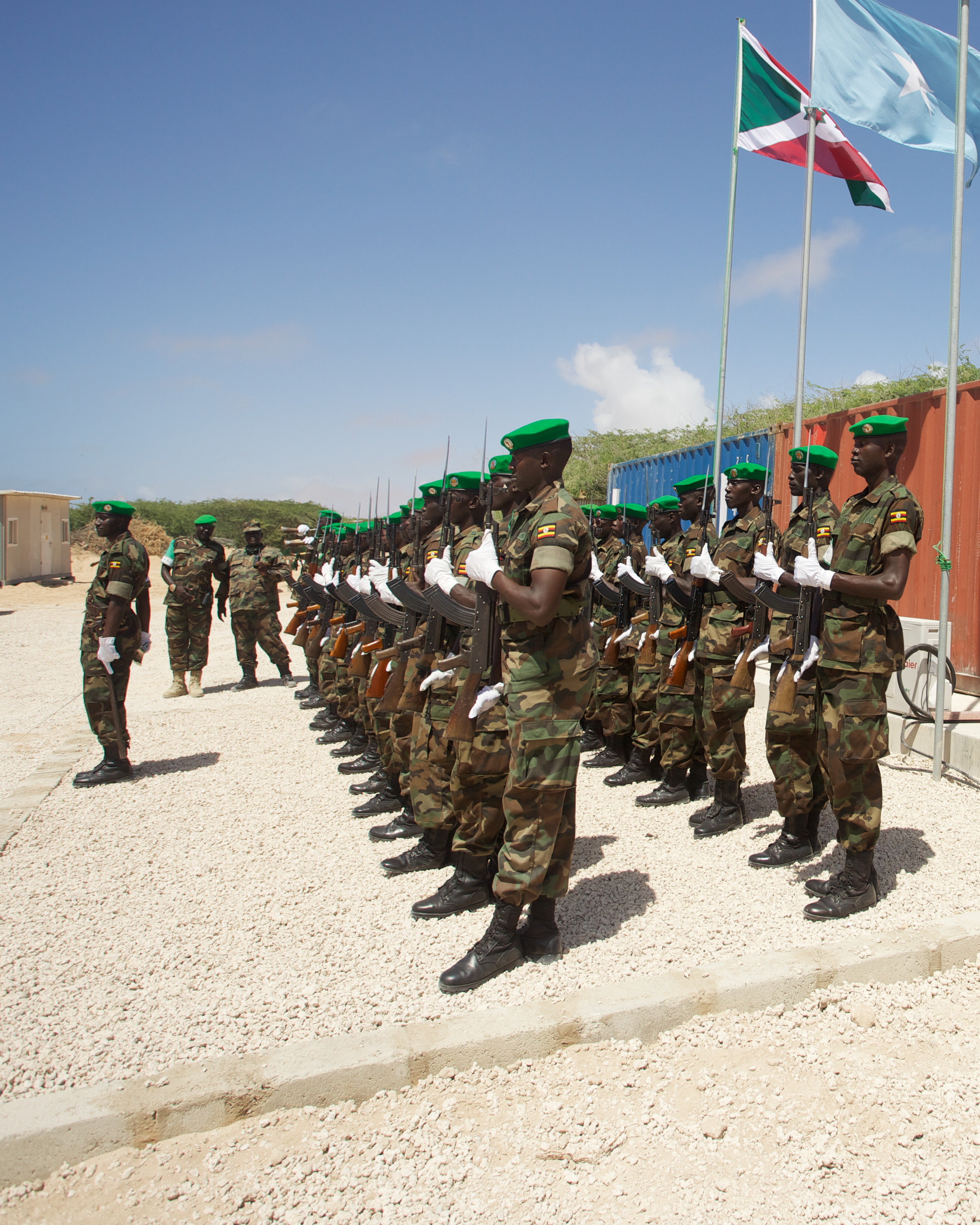 Guard of Honour at Force HQ followed by visit to Burundi training for Somali recruits at Camp Jazeera. Defence Minister and Force Commander addressed new Somali recruits.